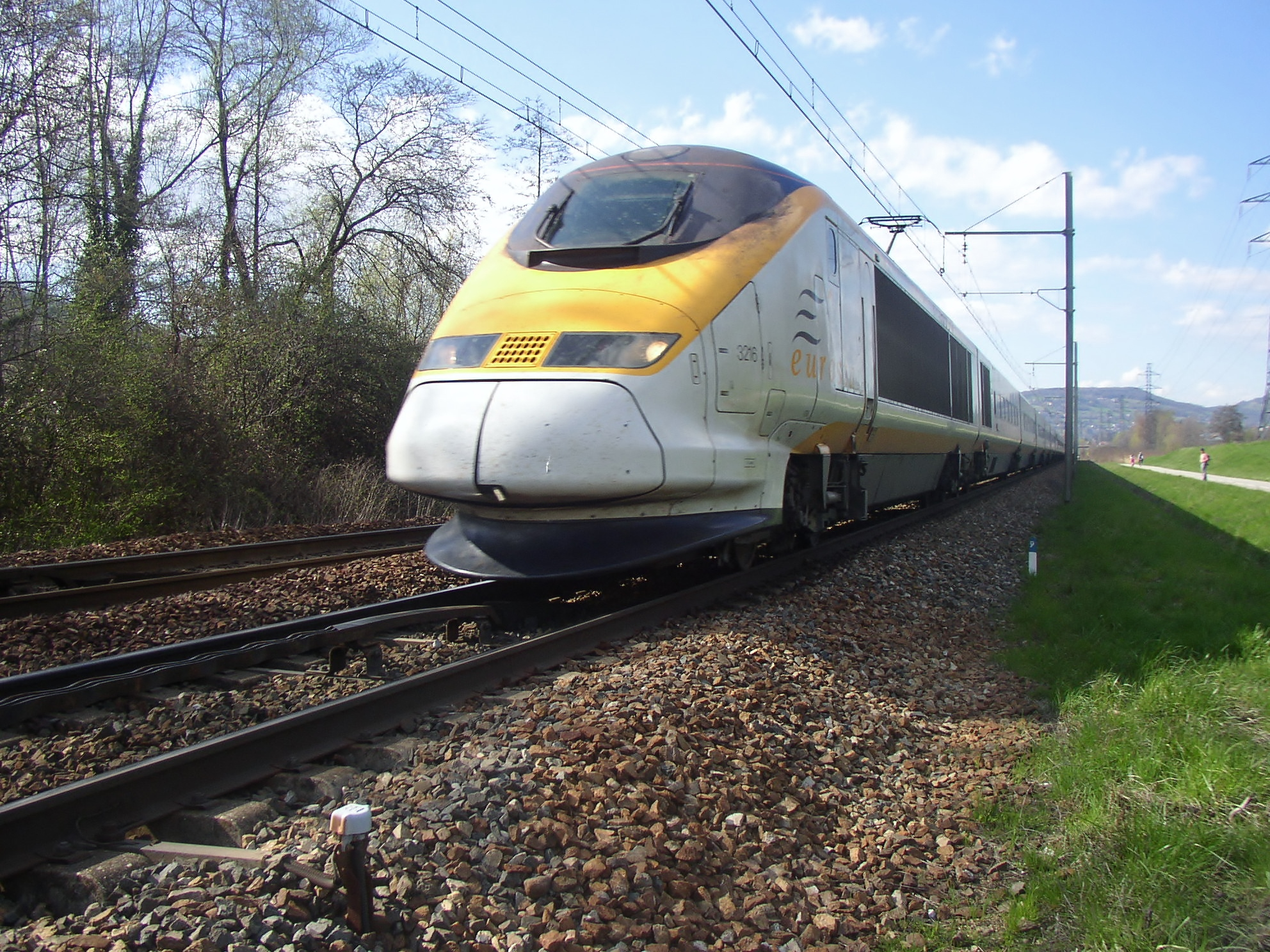 A TGV TMST Eurostar set coming from London in the United Kingdom and bound for Bourg-Saint-Maurice in the French Alps, is here leaving Chambéry in Savoie (France) during the winter season.